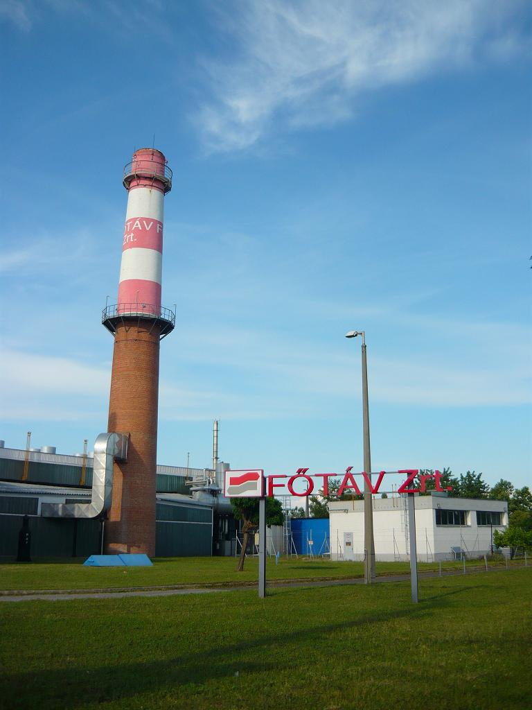 FŐTÁV's District Heating Plant in Rákoskeresztúr, Budapest